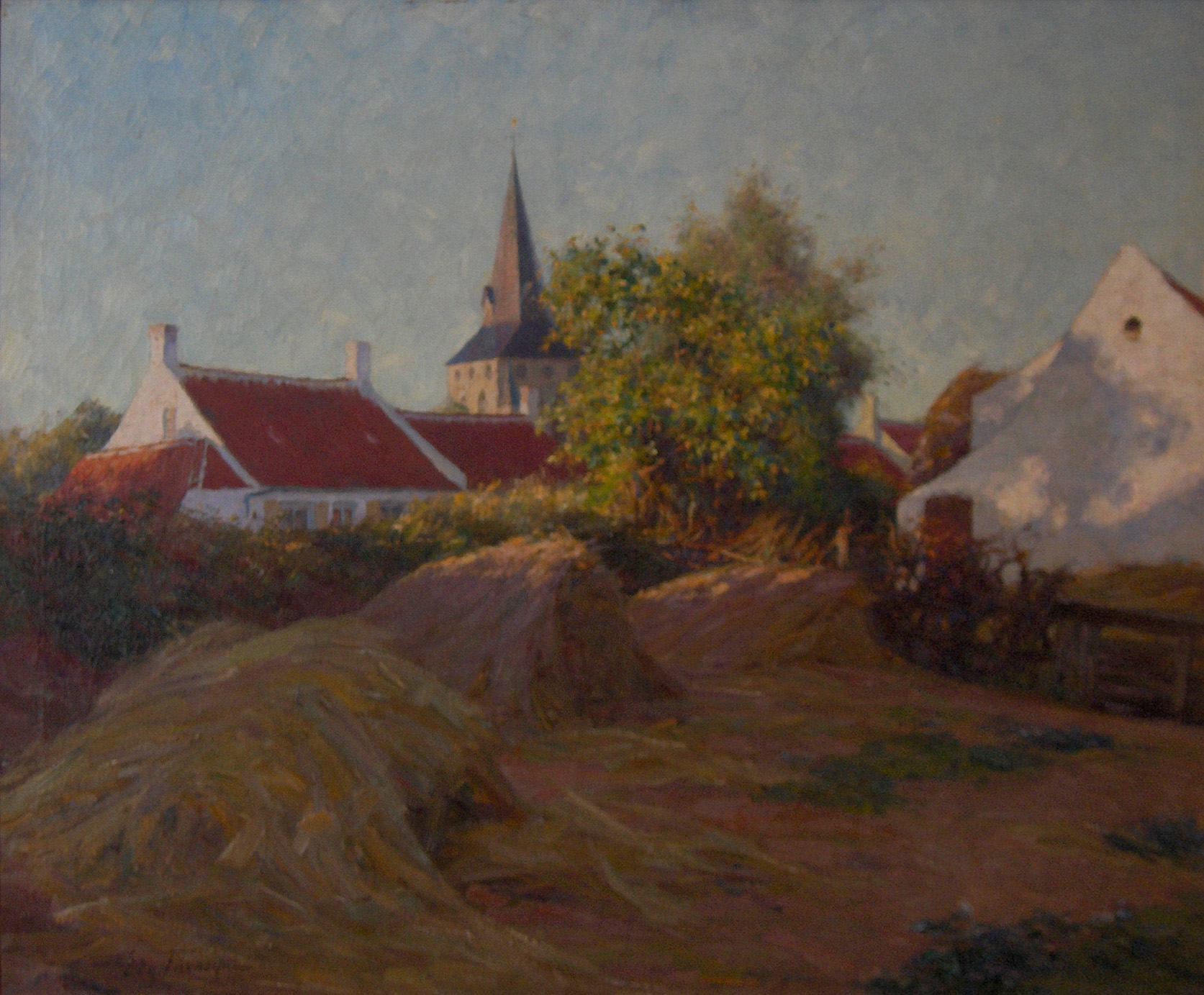 "View at the fisherman's church in Oostduinkerke", painting by Edgard Farasijn